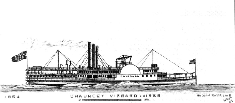 The steamboat Chauncey Vibbard of the Hudson River Day Line, following her 1880 rebuild.